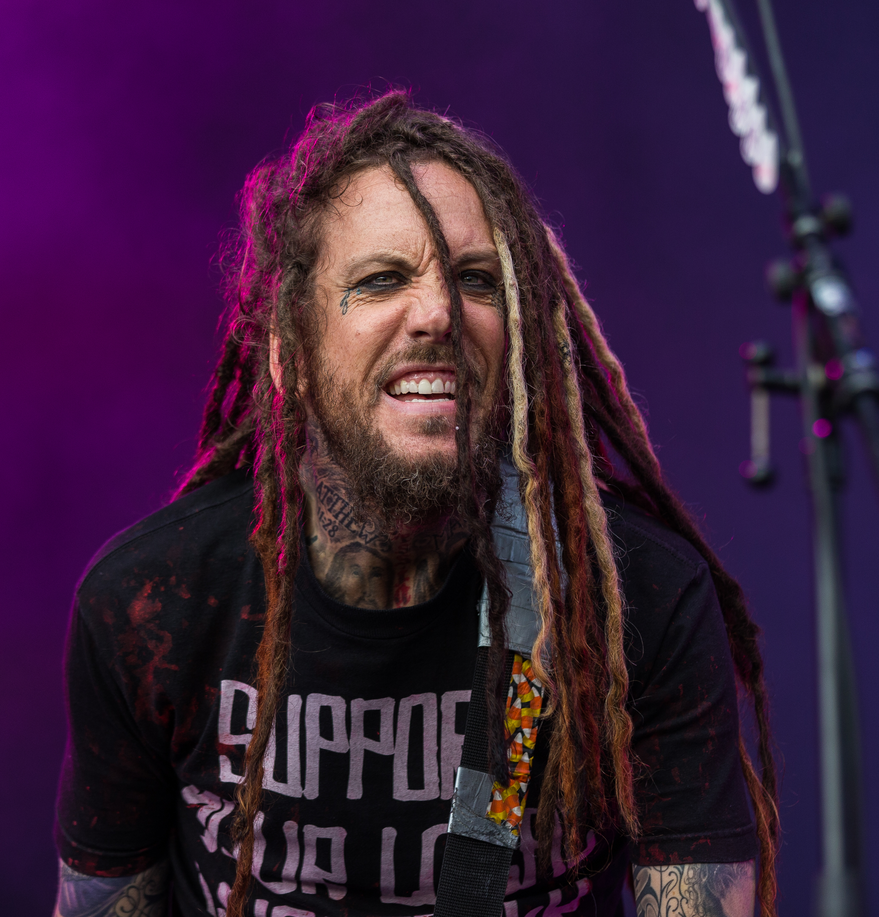 Brian "Head" Welch performing with Korn at the Rock’n’Heim festival in Hockenheim, Germany on 16 August 2014.